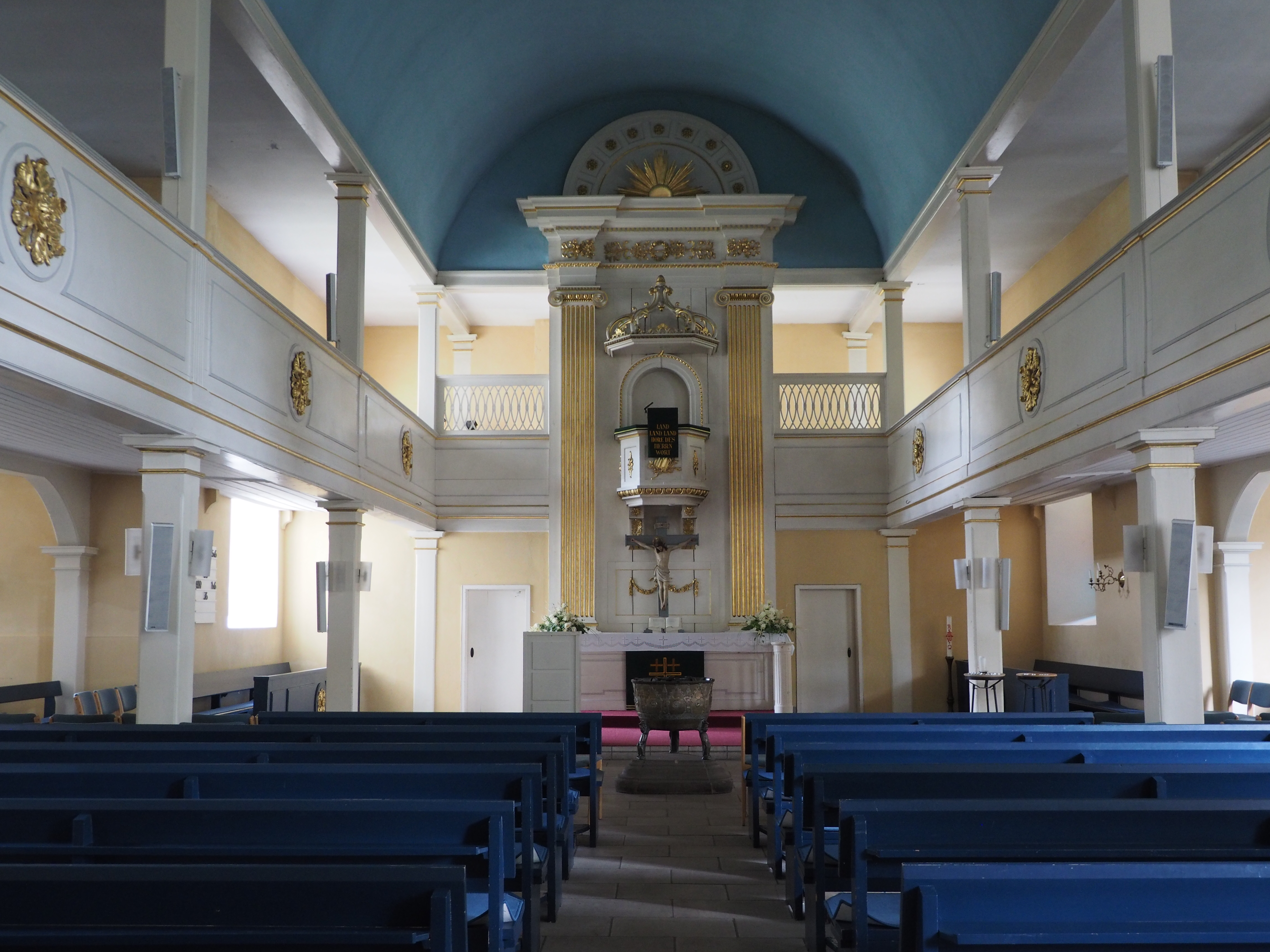 Interior of Church St John the Baptist, Winsen (Aller), Lower Saxony, Germany